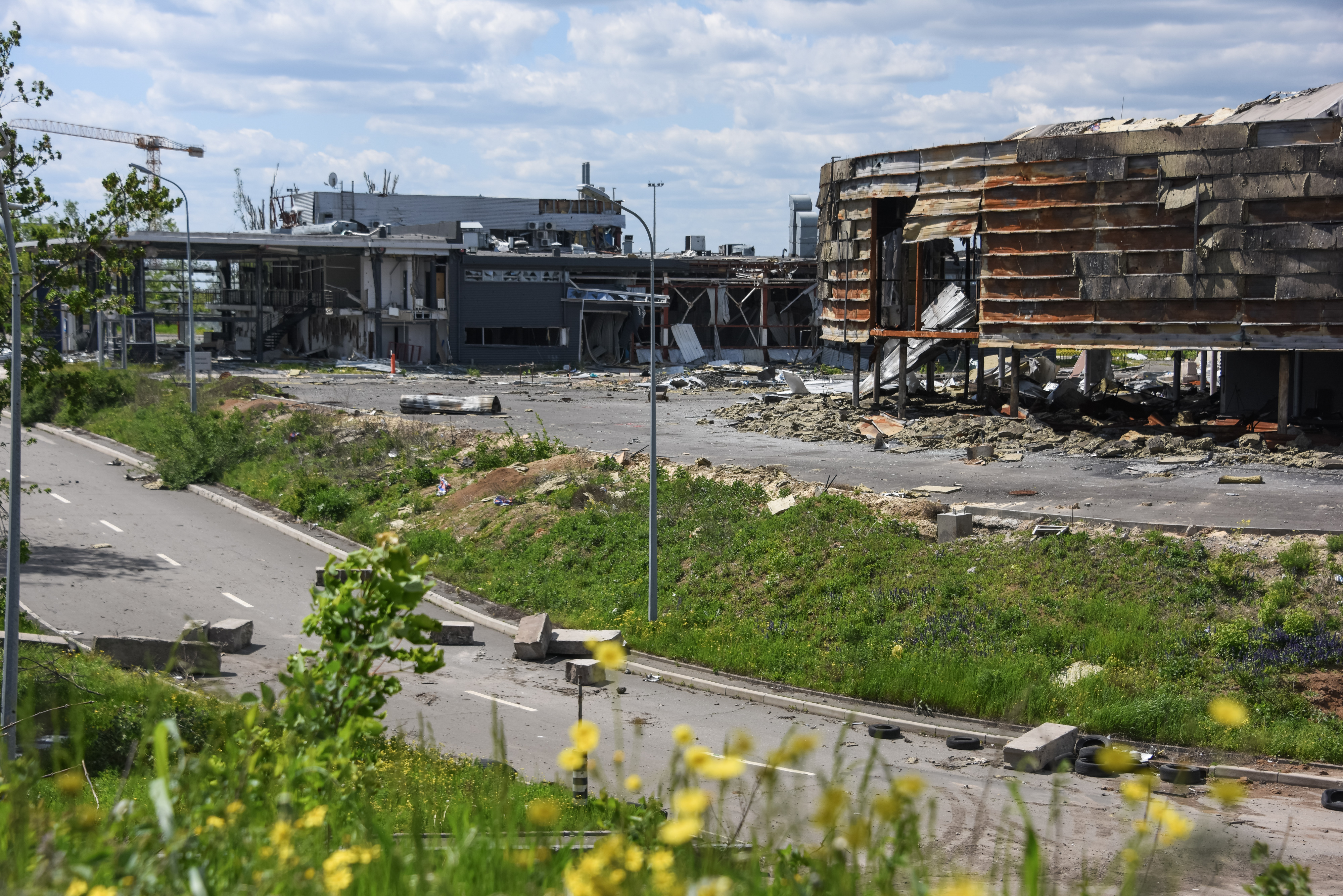 A view captured near remains of Donetsk International Airport taken on 17 May 2015